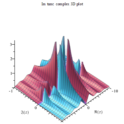 Tanc Im complex 3D plot